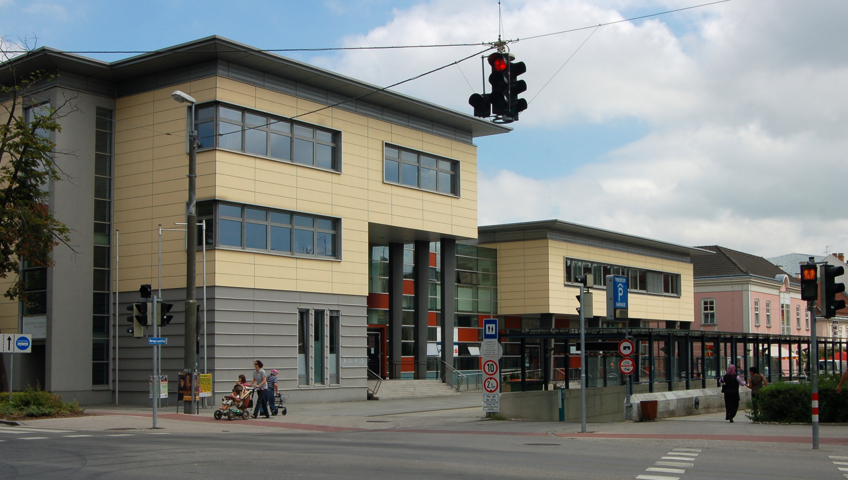 BORG Wiener Neustadt (Federal senior grammar school) at Babenbergerring and Herzog-Leopold-Straße